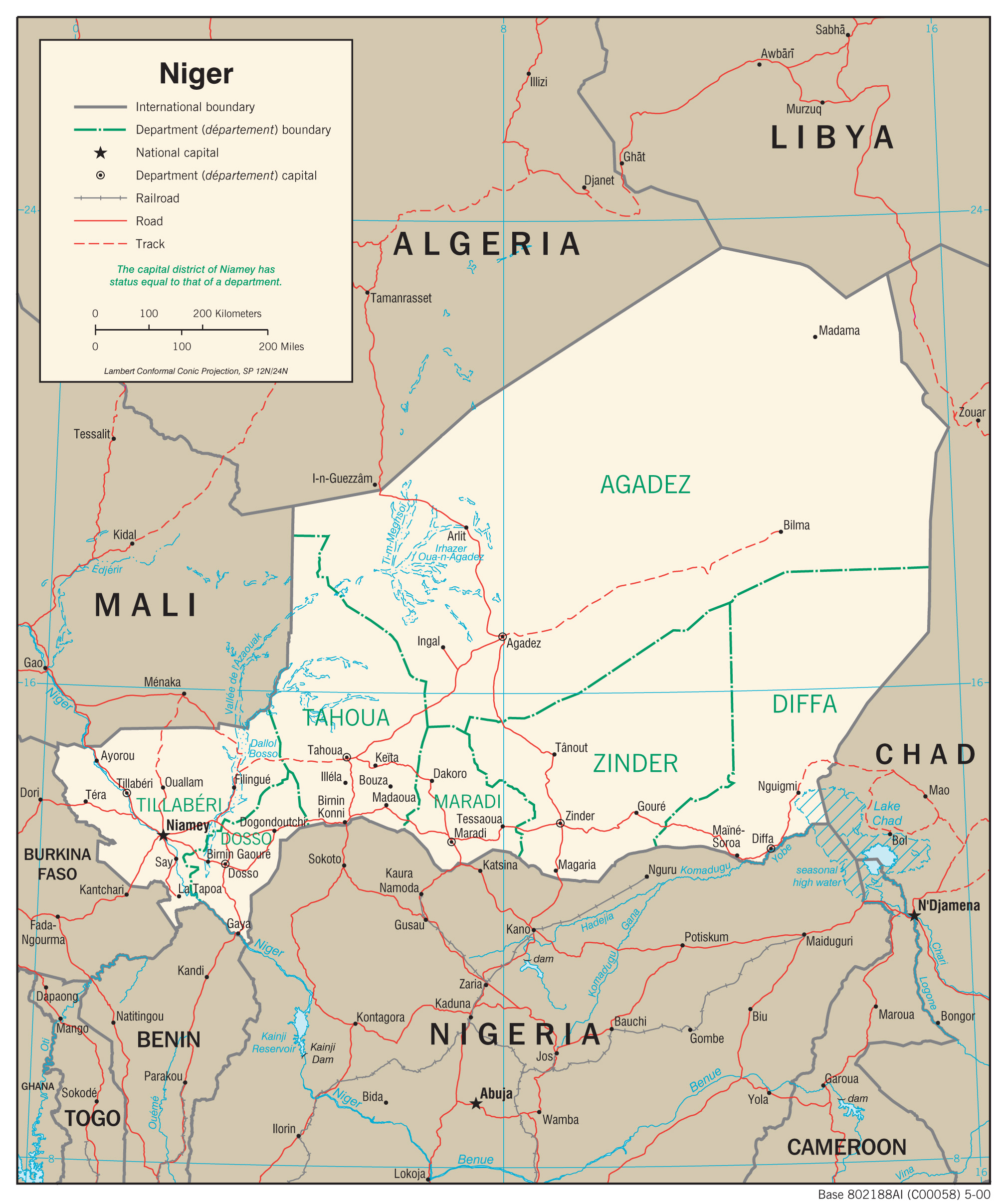 Transport system in Niger, 2000.